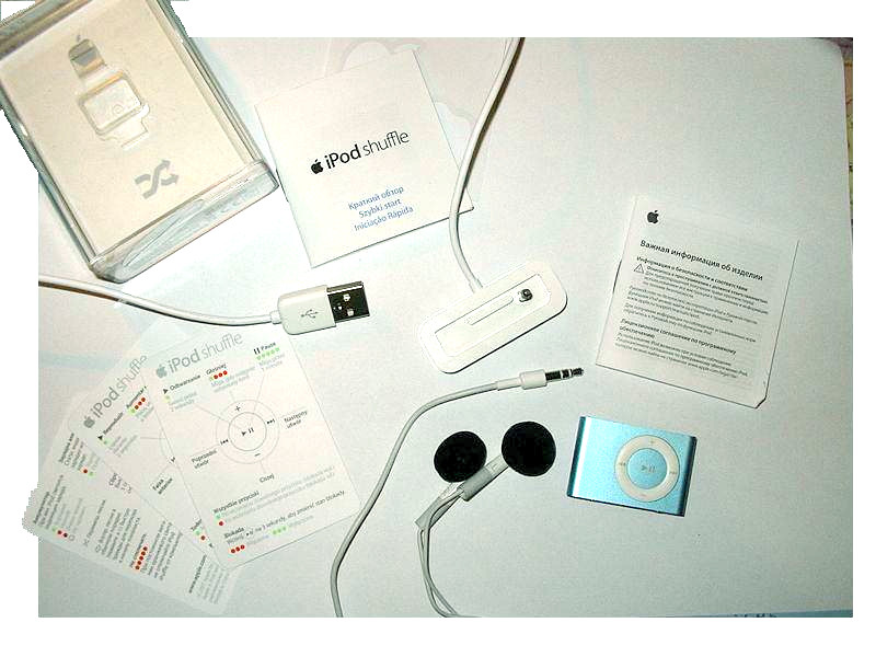 All elements in box.